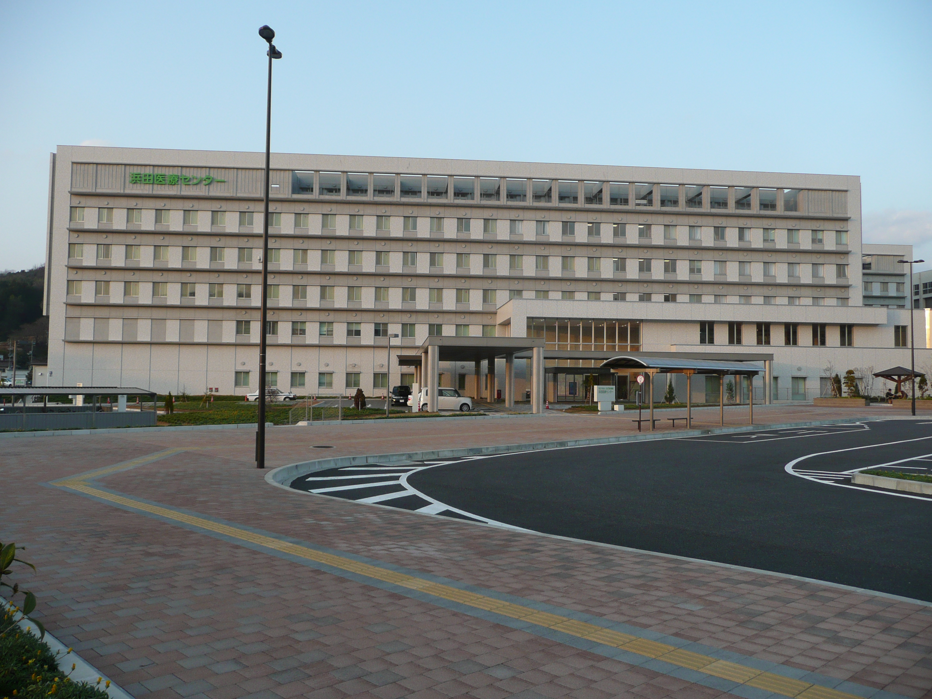 浜田医療センター